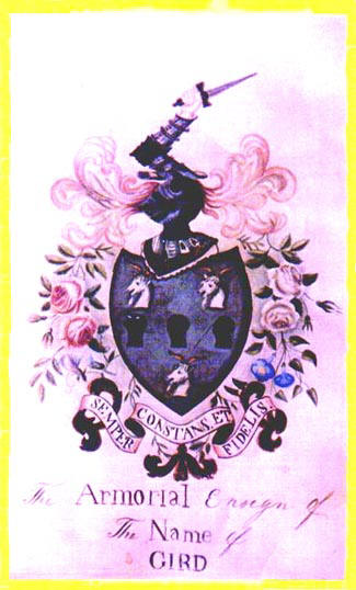 The Coat of Arms of the House Gird